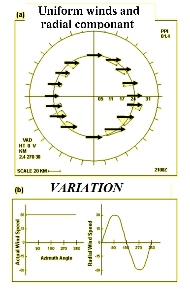 Explanation of the Doppler wind: The radar only sees the radial component of the winds as it uses the variation of phase between successive pulses coming back from the target. The assumption is that the wind is uniform and the projection can be fitted on a Cosine curve when one goes around 360 degrees like a radar scan.